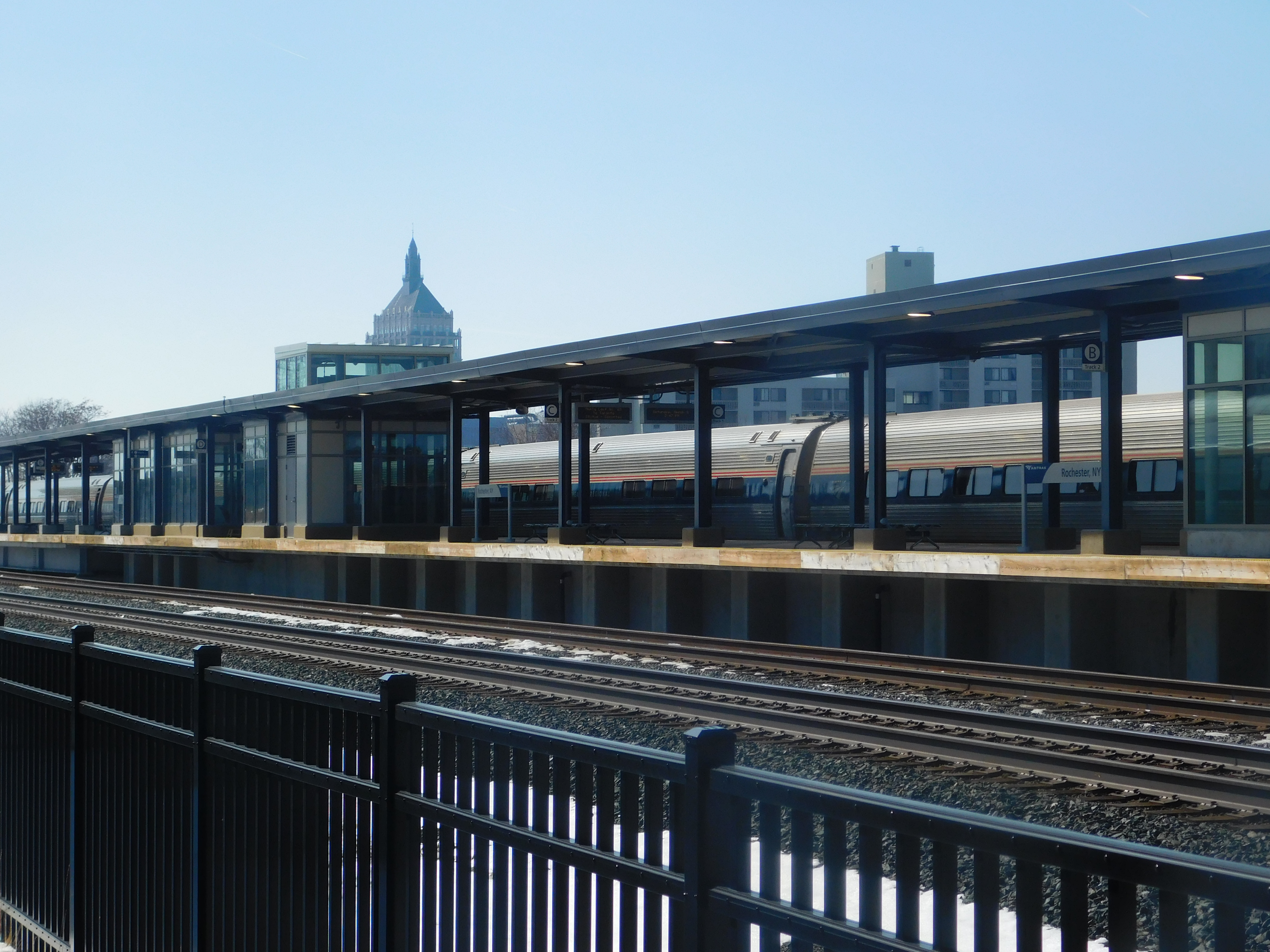 The platform at the Louise M. Slaughter Rochester Station in 2019.